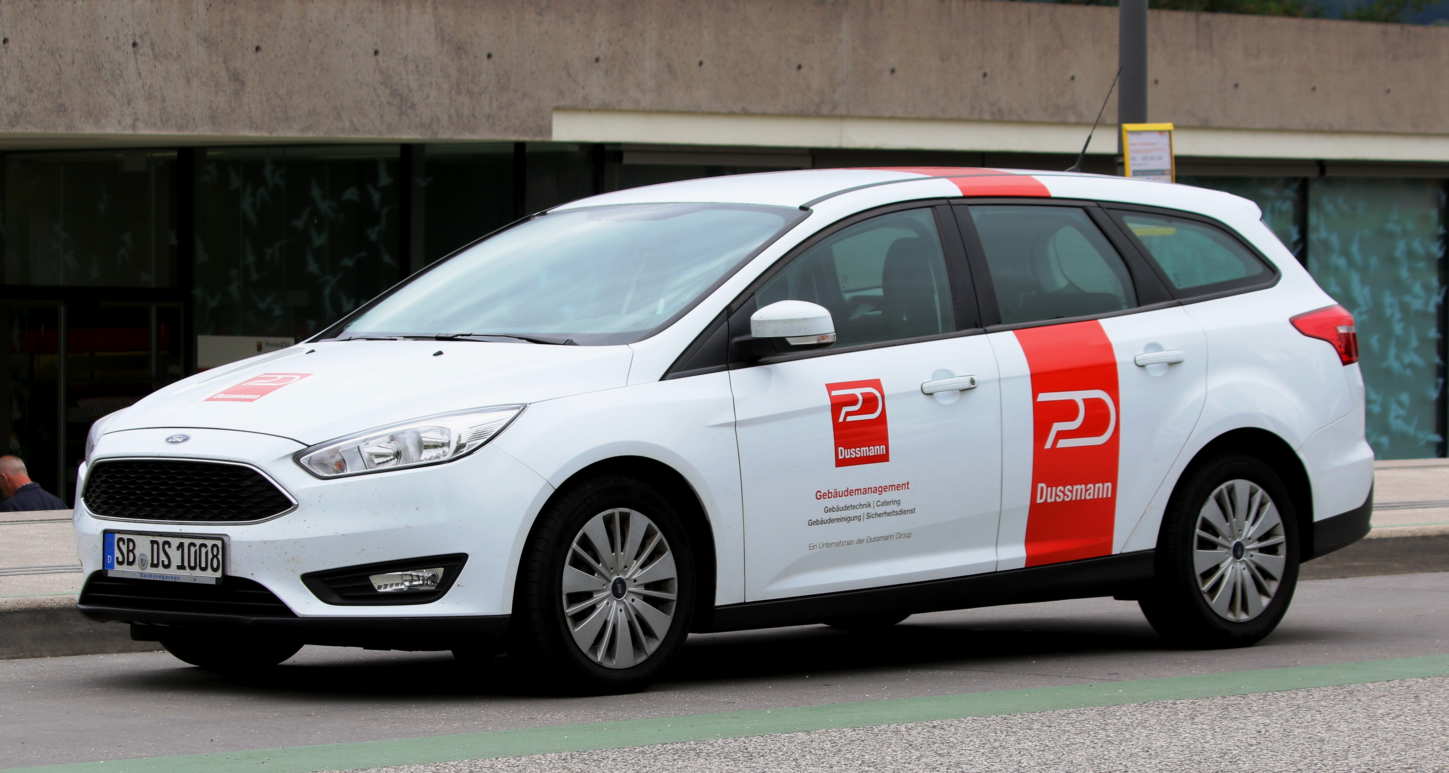 Ford Focus Kombi